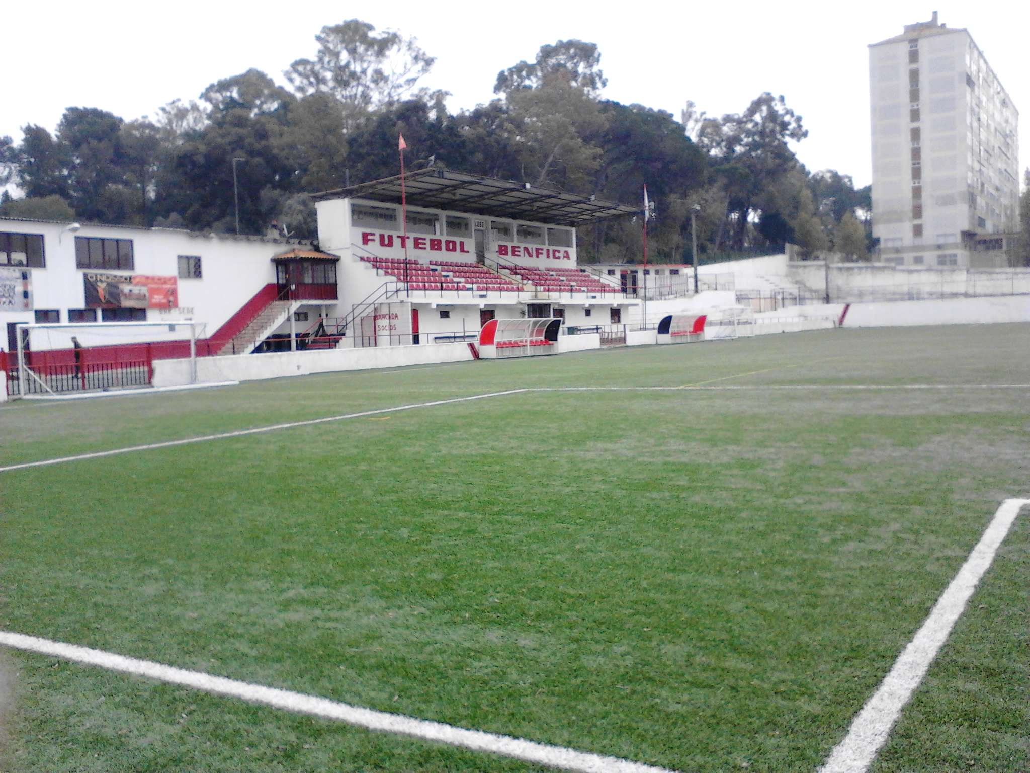 The main stand of Estádio Francisco Lázaro